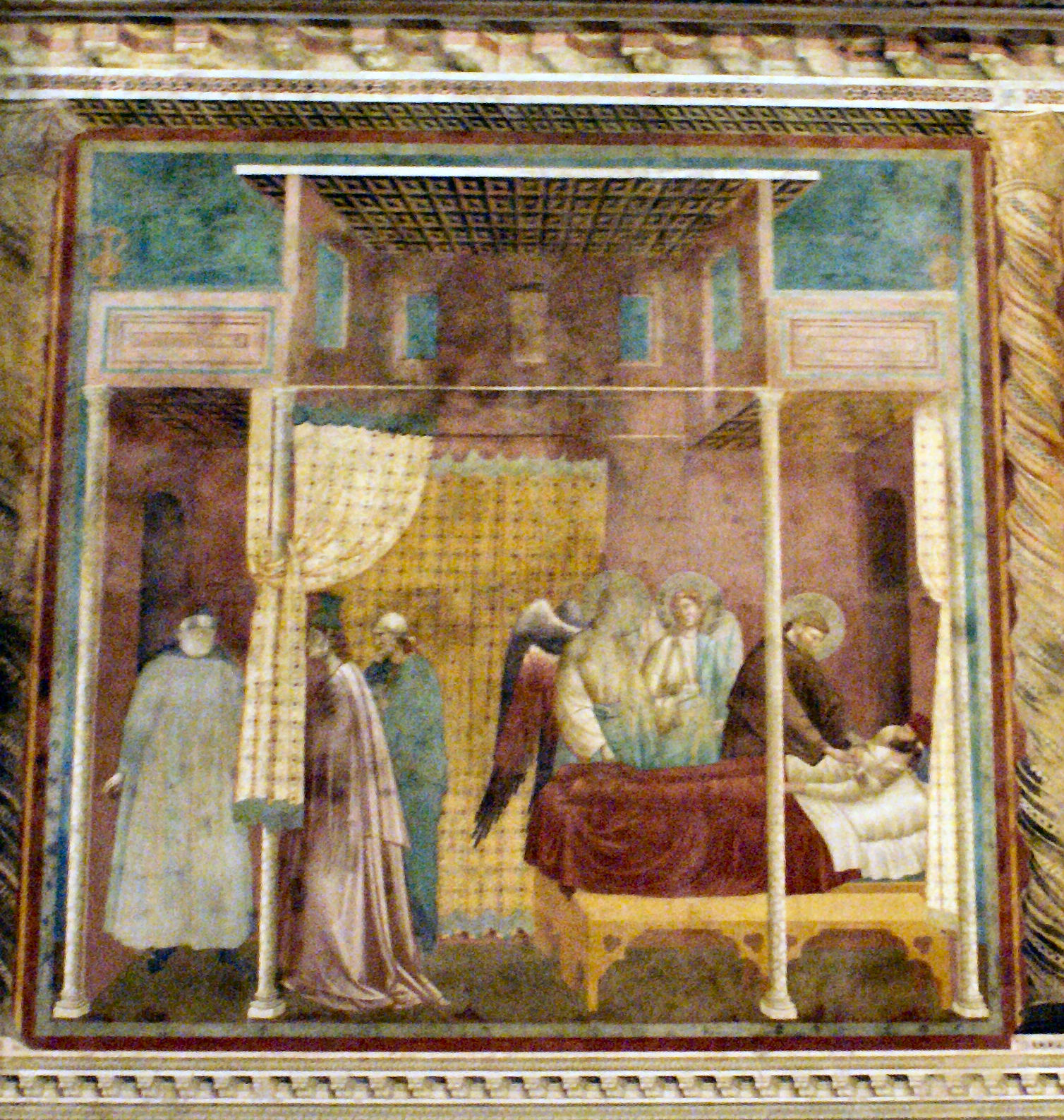 Giotto: The cure of the man from Ilerda,Basilica of Saint Francis,Assisi